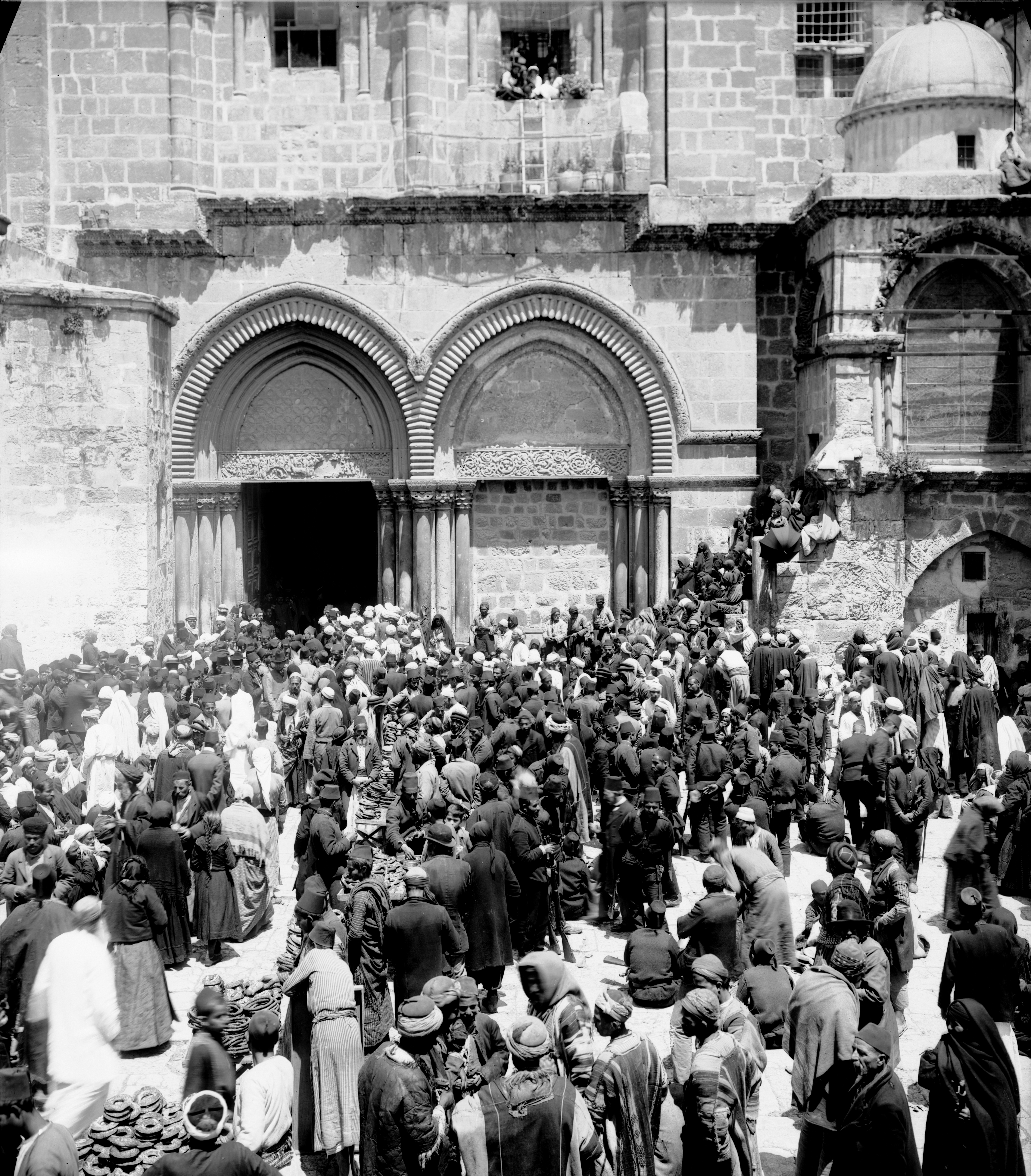 Jerusalem (El-Kouds). Church of the Holy Sepulchre at Easter time / American Colony, Jerusalem.